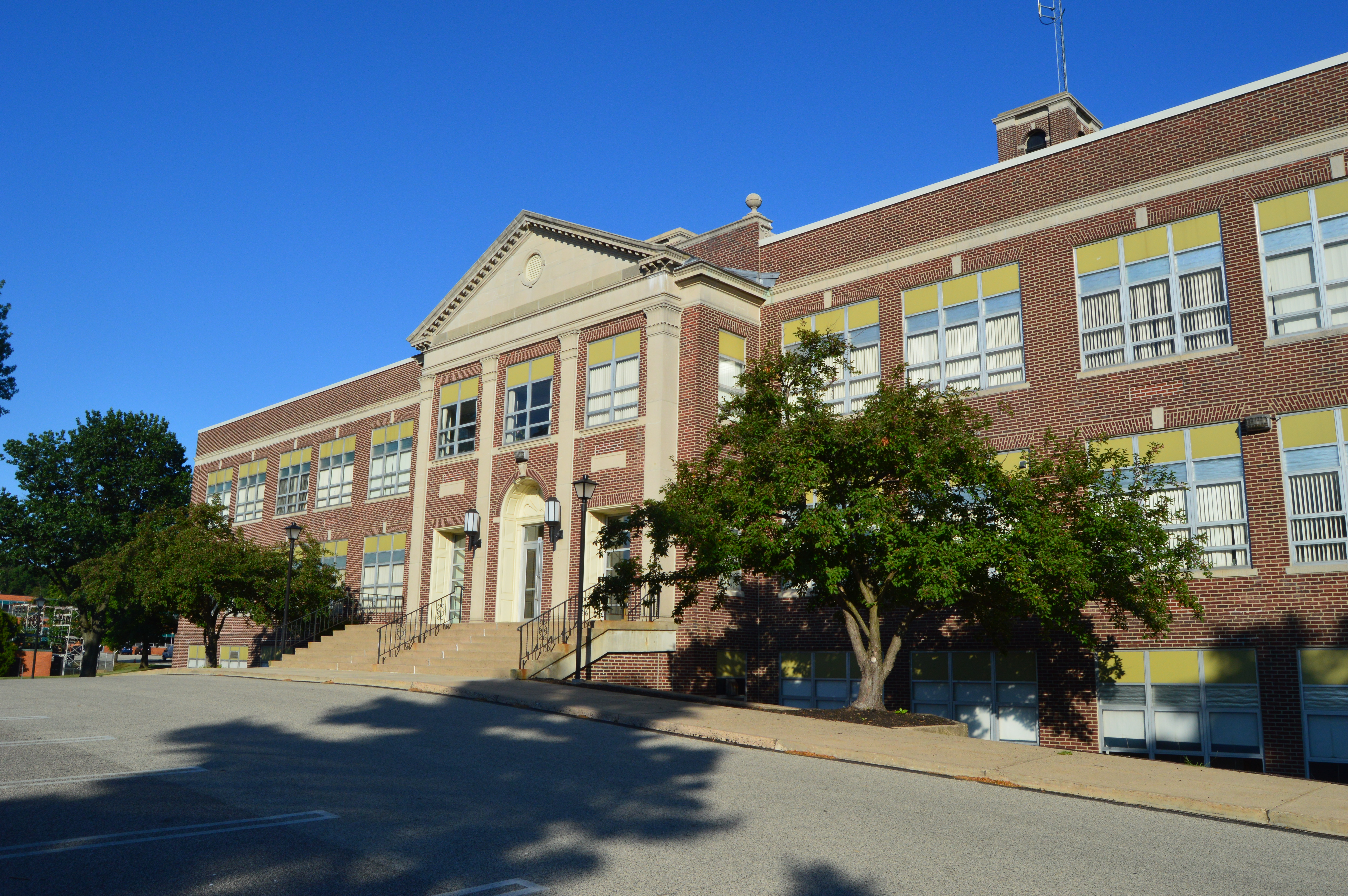 Abington School District Administration Building